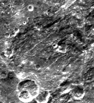 Clementine image